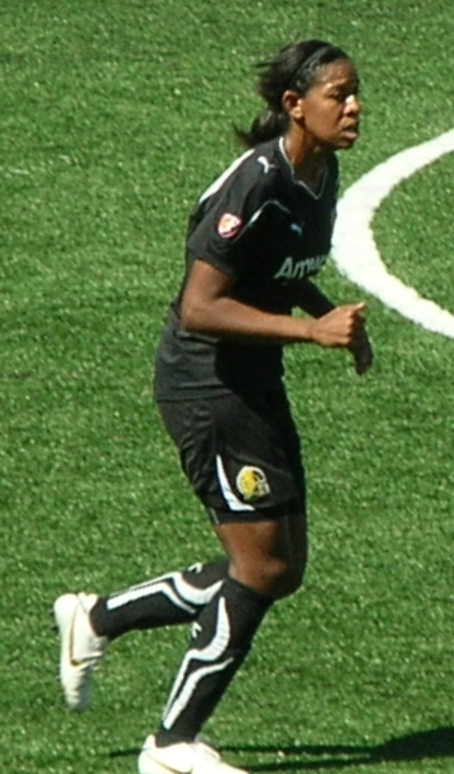 FC Gold Pride defender Candace Chapman at the 2010 WPS Championship at Pioneer Stadium in Hayward against the Philadelphia Independence. The Gold Pride won 4-0.